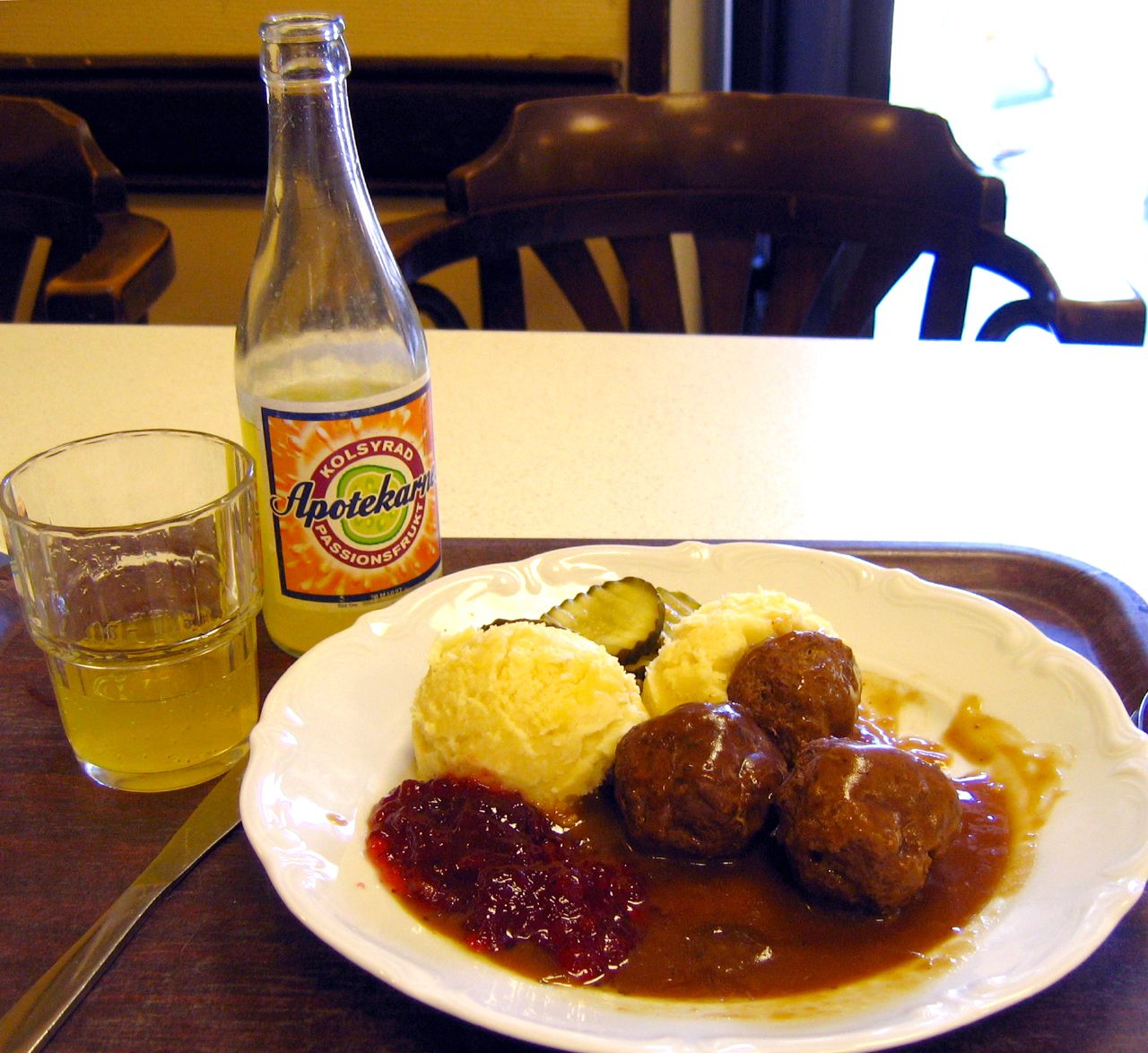 Köttbullar med lingon (meatballs with lingon berry) at Kungstorgs Cafeét, Göteborg, Sweden